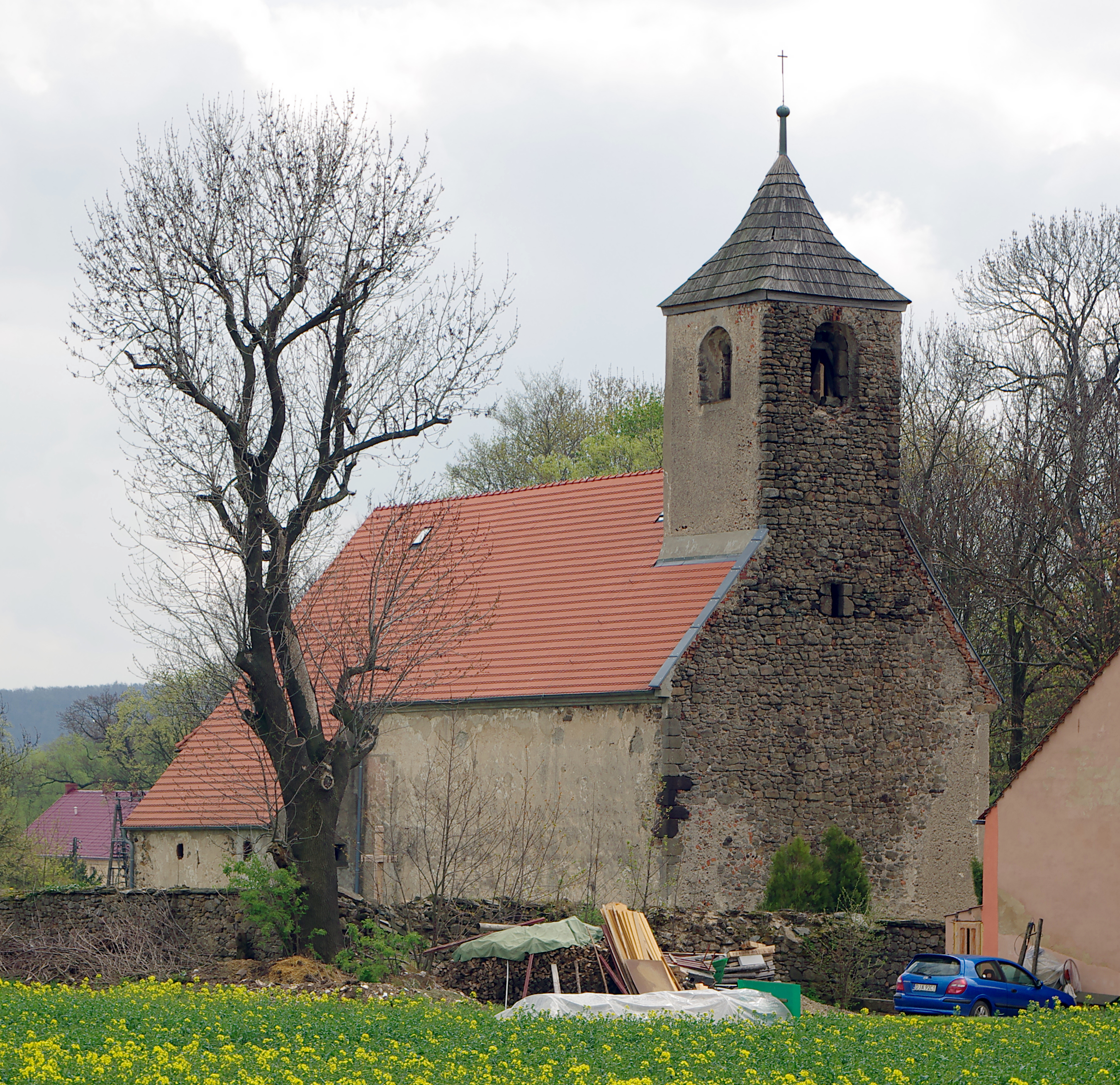 Exaltation of the Holy Cross church in Pogwizdów